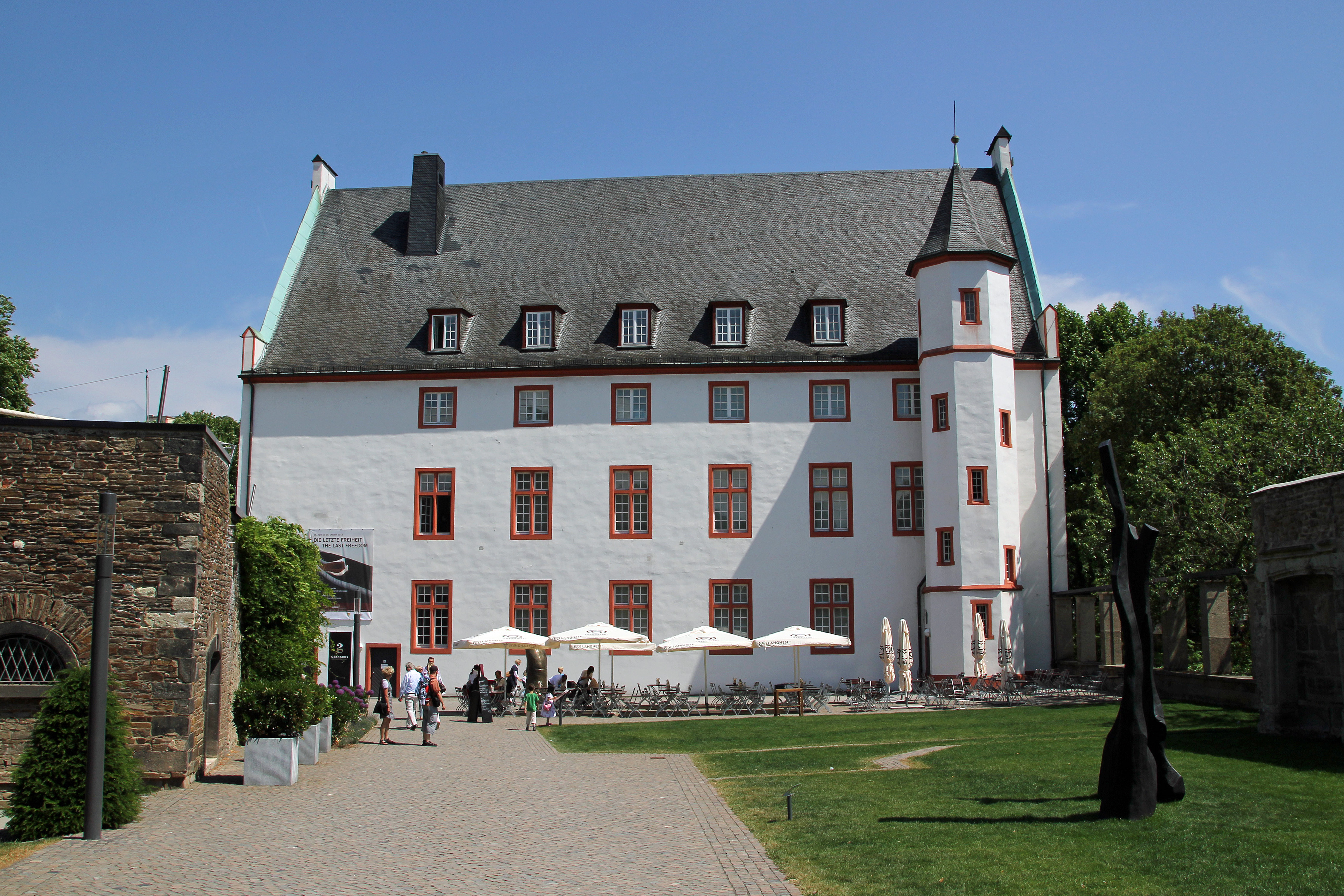 Federal Horticultural Show 2011 in Koblenz - Blumenhof at Deutsches Eck